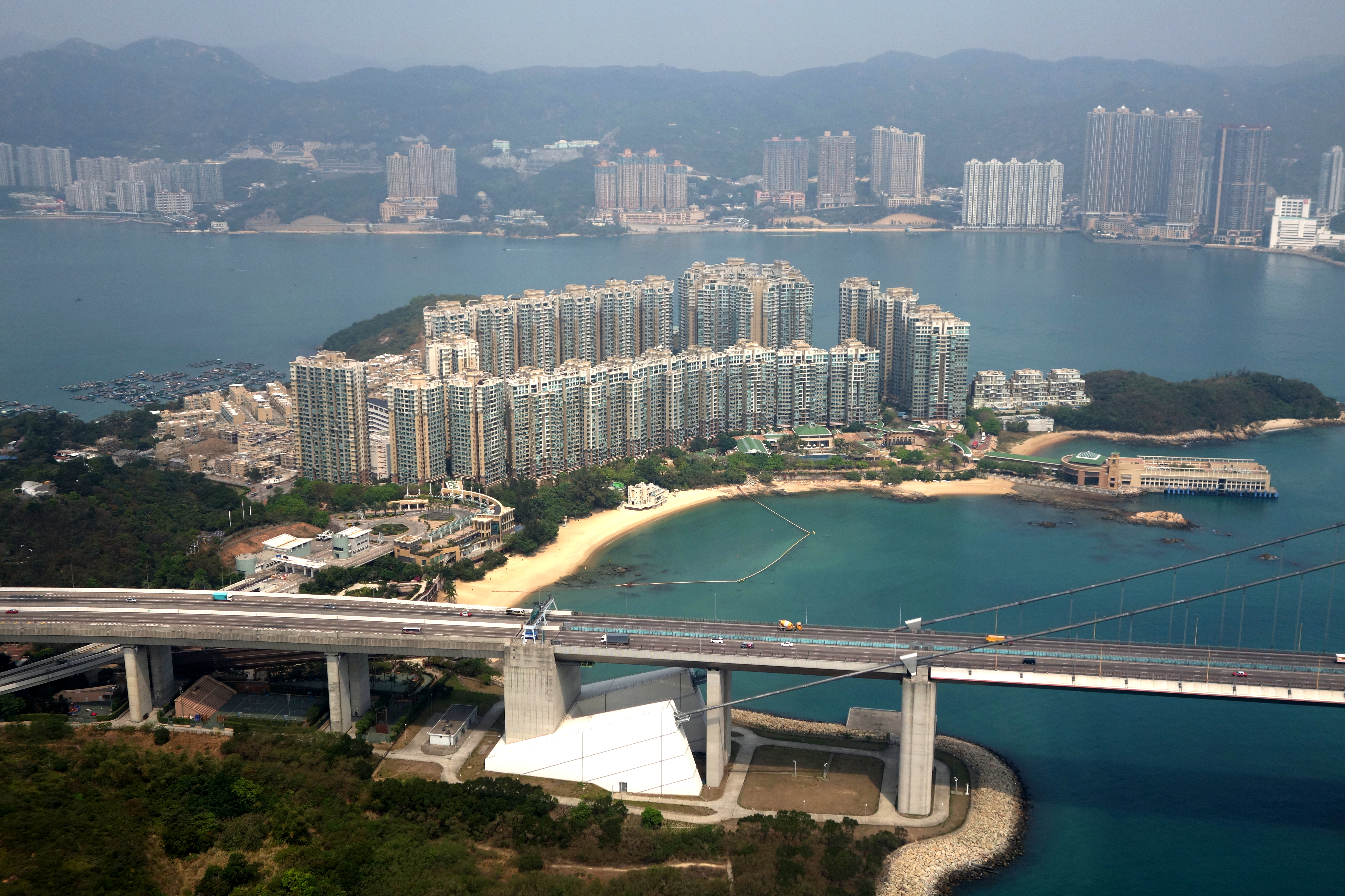 Aerial photo of Park Island in Ma Wan, Tsing Ma Bridge is in the foreground, Sham Tseng could be seen in the background.